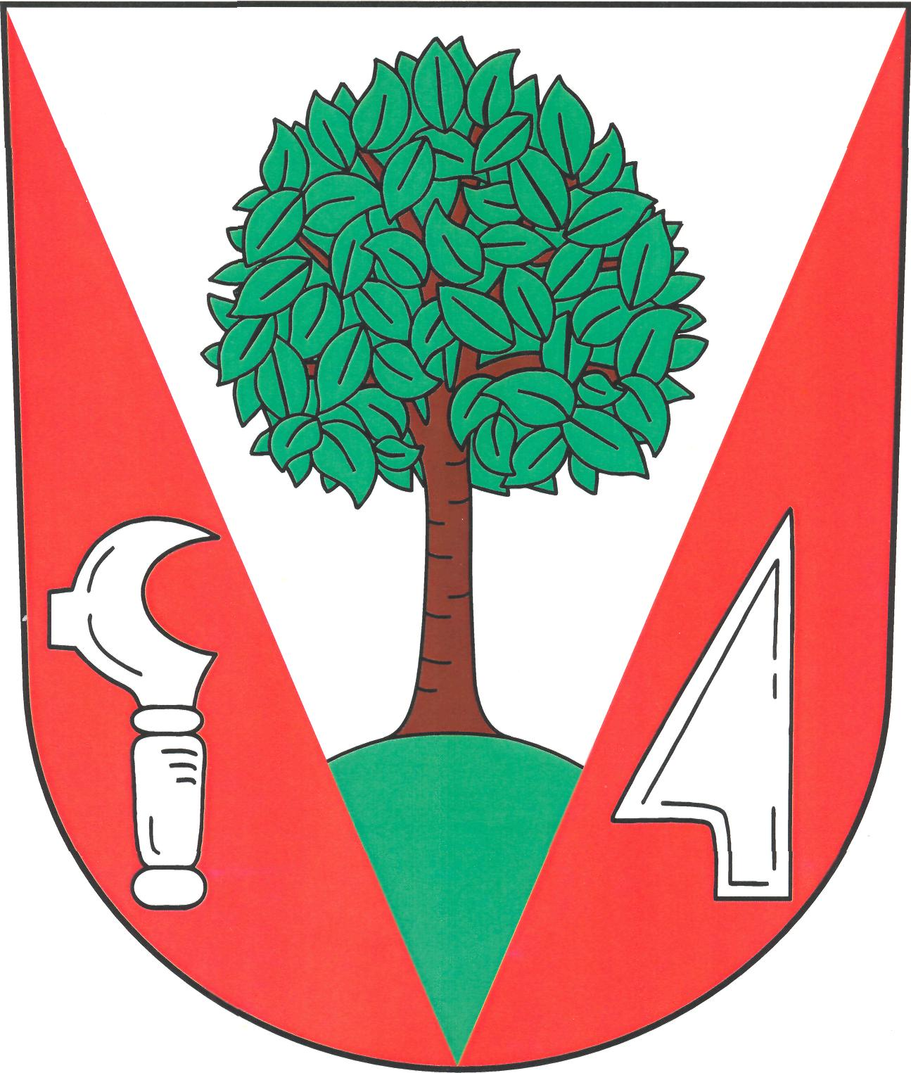 Municipal coat of arms of Ořechov village, Brno-Country District, Czech Republic.